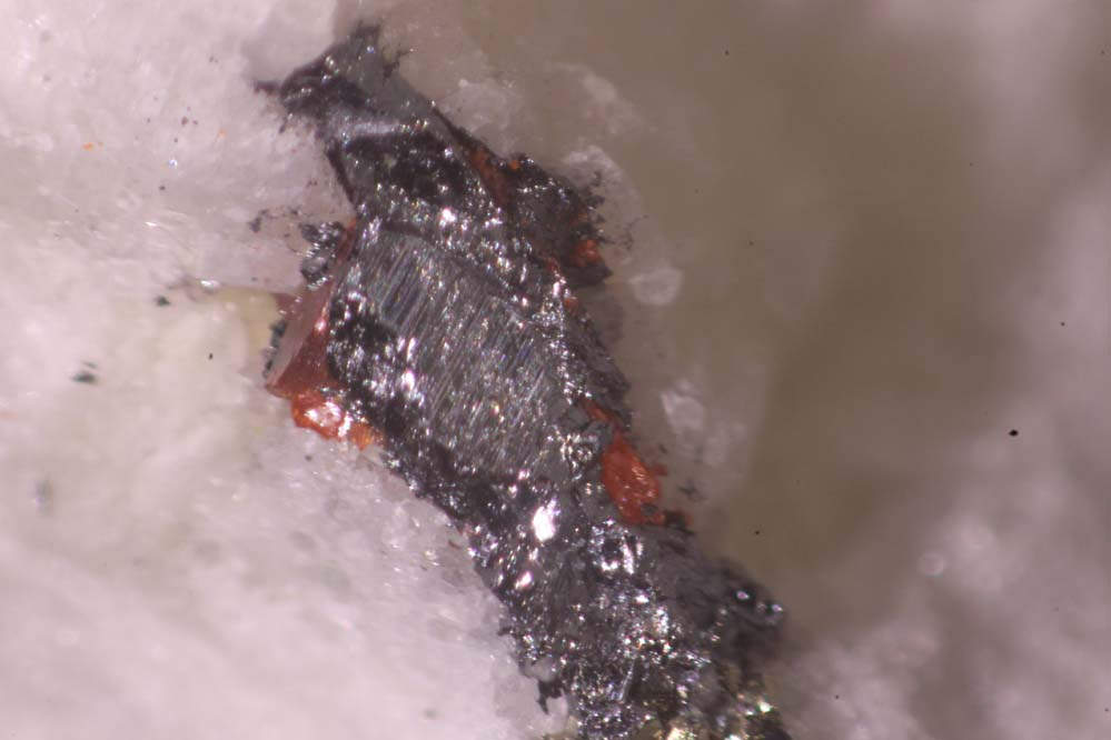 Exceptionally well formed hatchite crystals (a very rare thallium mineral) from the type and only locality for the mineral worldwide (Switzerland). Associated mineral is realgar and pyrite. Official Code Number: L-14-5693 from the FGL (Forschungsgemeinschaft Lengenbach).